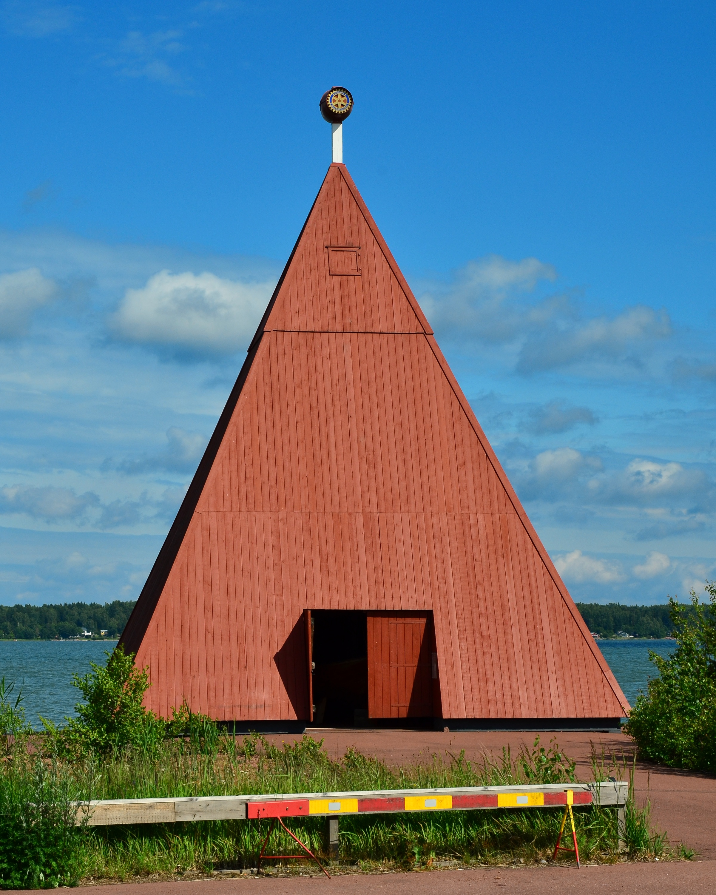 The daymark at Sjökvarteret in Mariehamn, Åland islands.